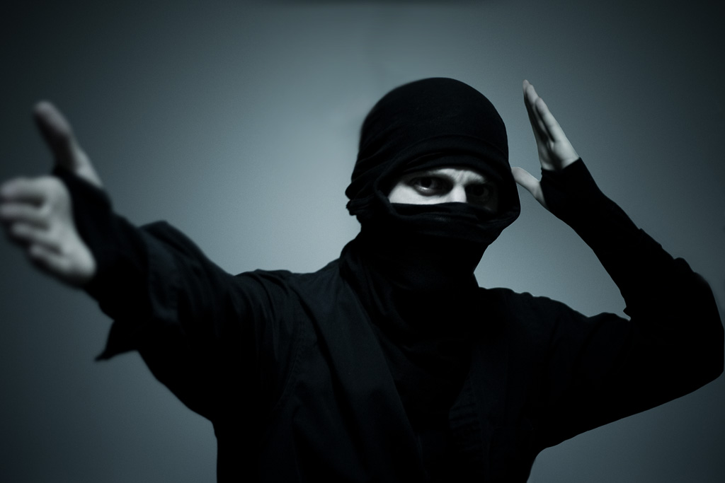 The photographer's roommate showing off his Purim costume, Pittsburgh, Pennsylvania.